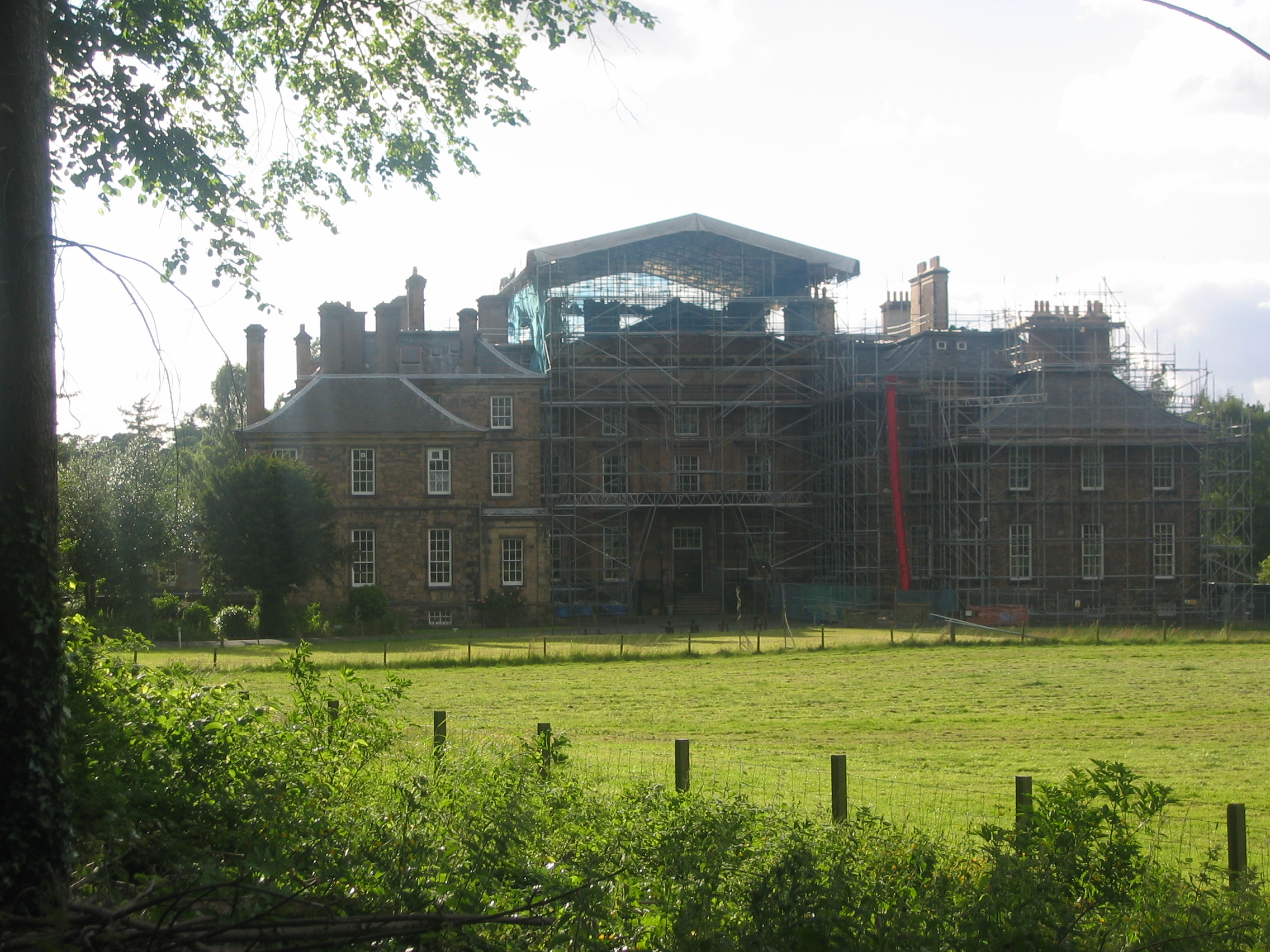 Dalkeith Palace, Midlothian, Scotland